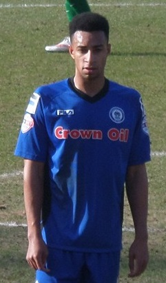 Rhys Bennett in 2015